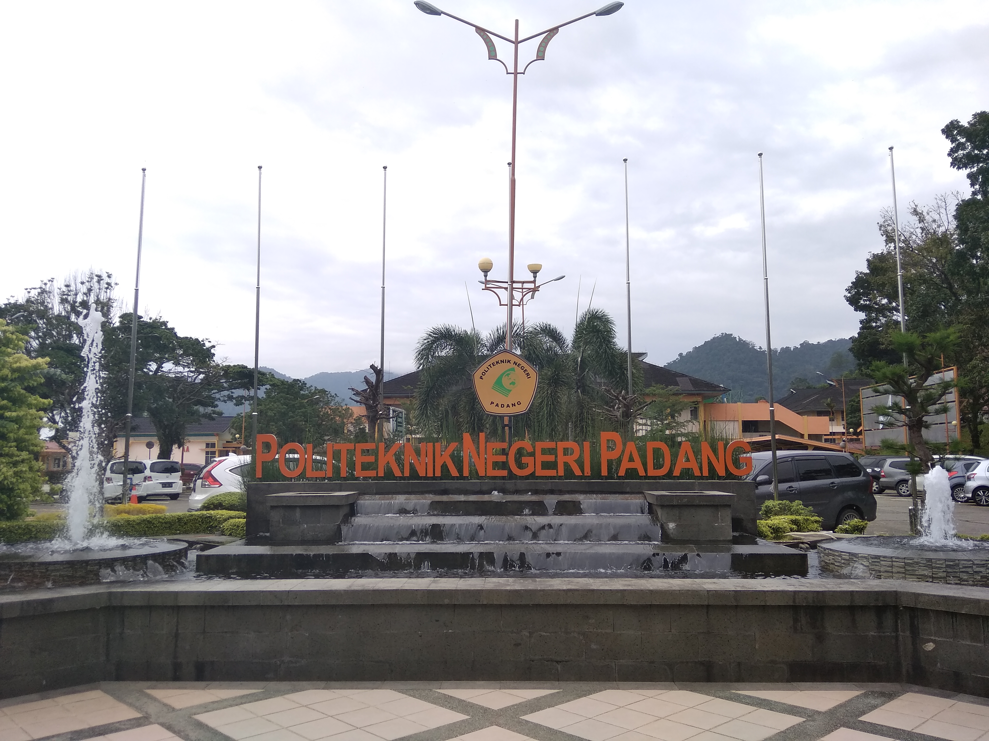 Padang State Polytechnic, the first state polytechnic in West Sumatra, Indonesia.